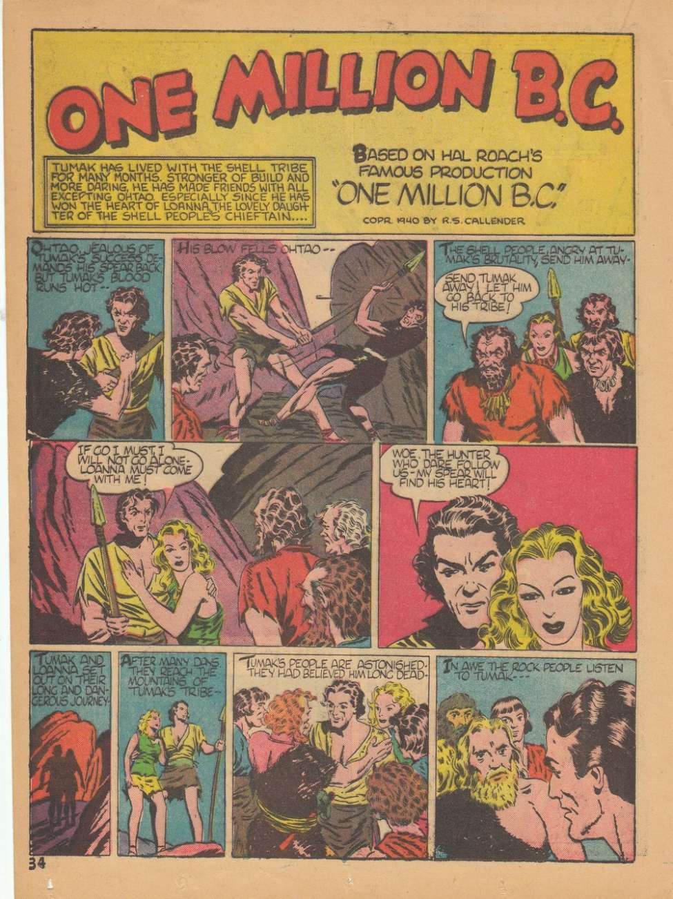 One Million B.C., page 1, Crackajack Funnies #26, Aug 1940